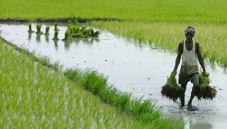 Agriculture Main